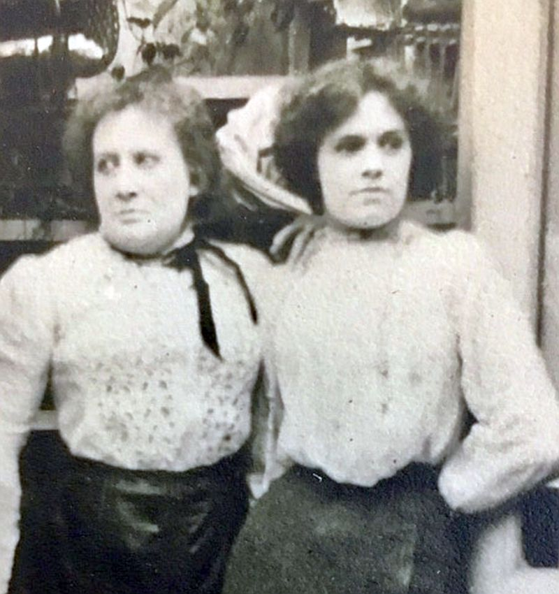 King Hall's widow, Isabel, and youngest daughter, Grace, circa 1900, in the back garden of their home, 56 Hill drop Road, London.